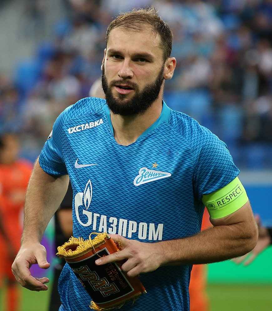 Branislav Ivanović with FC Zenit Saint Petersburg in a game against FC Ural Yekaterinburg.